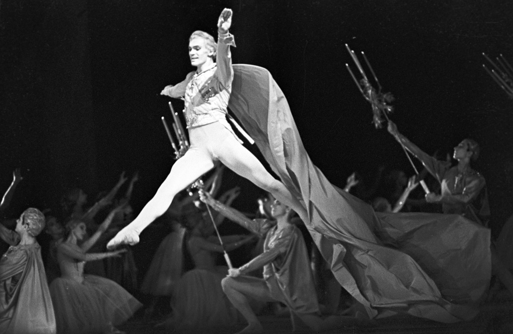 “Vladimir Vasilyev in scene from Pyotr Tchaikovsky's ballet The Nutcracker”. Merited Artist of the RSFSR Vladimir Vasilyev as Nutcracker Prince in a scene from Pyotr Tchaikovsky's ballet The Nutcracker staged at the State Academic Bolshoi Theater of the USSR.